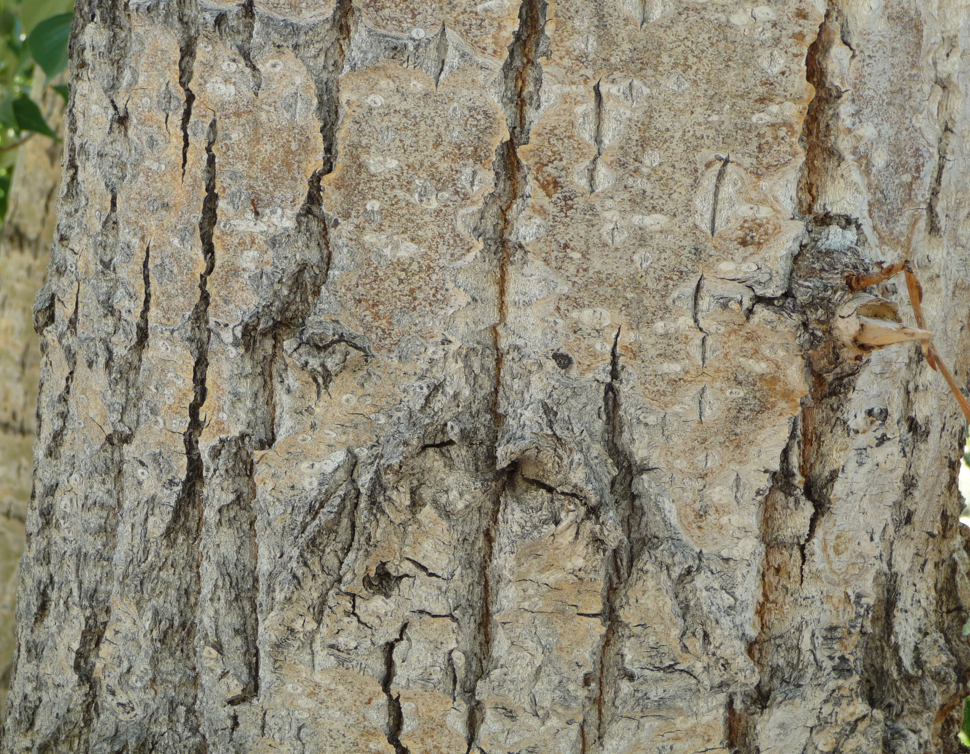 Populus trichocarpa, Mono County, California, USA